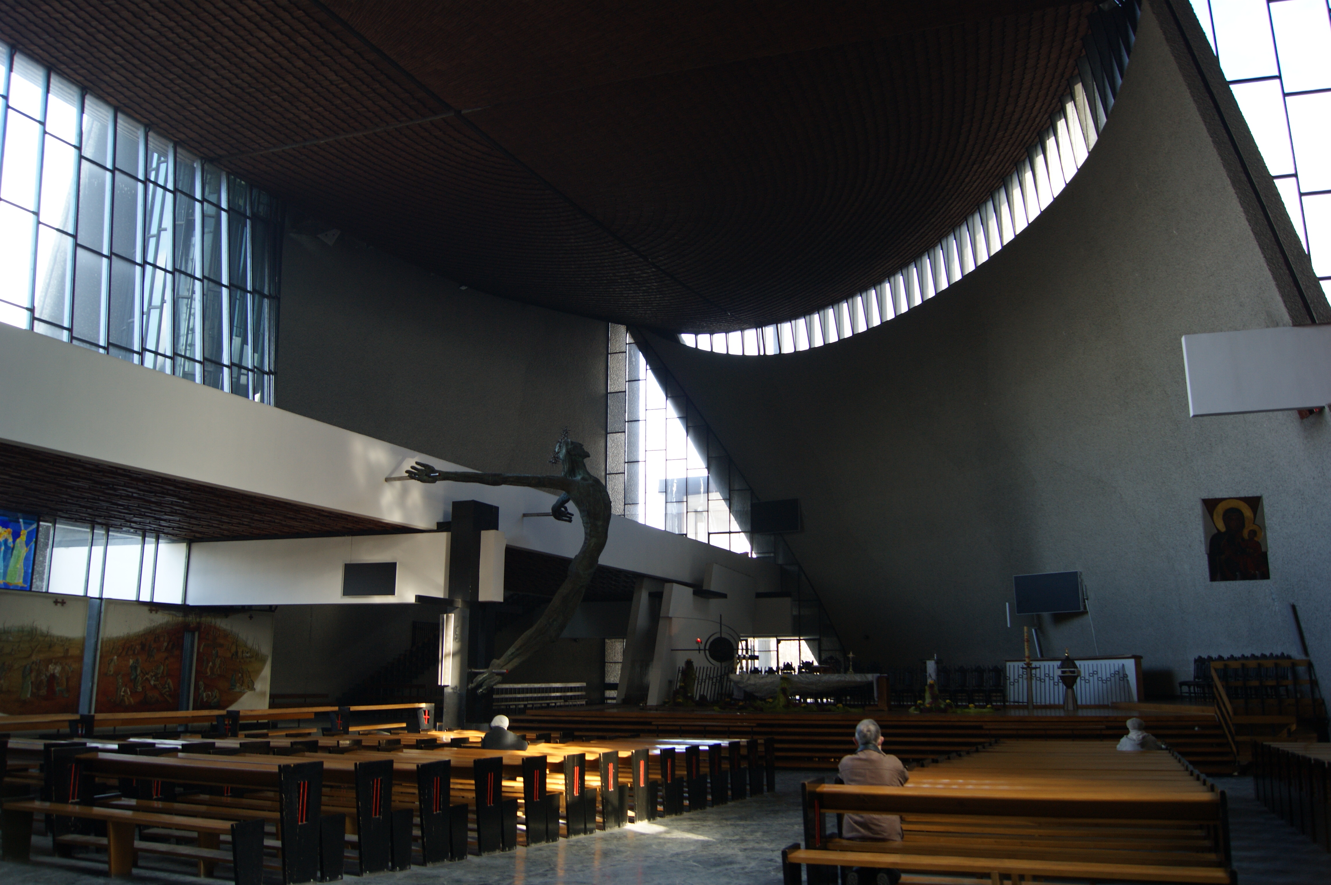 Church of Our Lady the Queen of Poland (Ark of Our Lord)-inside, 1 Obroncow Krzyza street,Nowa Huta,Krakow,Poland